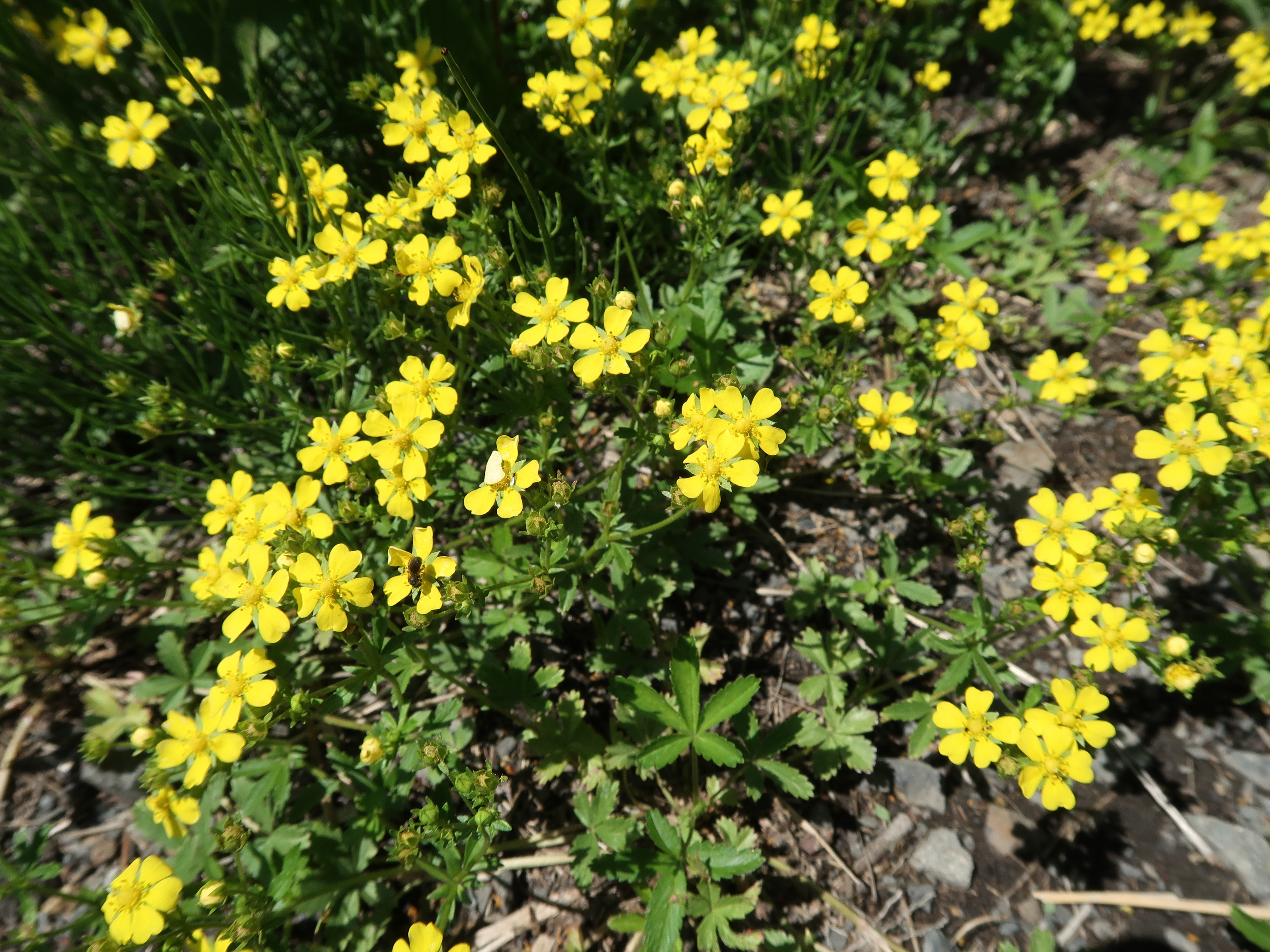 Potentilla anemonifolia, Watarase-yusuichi, Tochigi pref., Japan